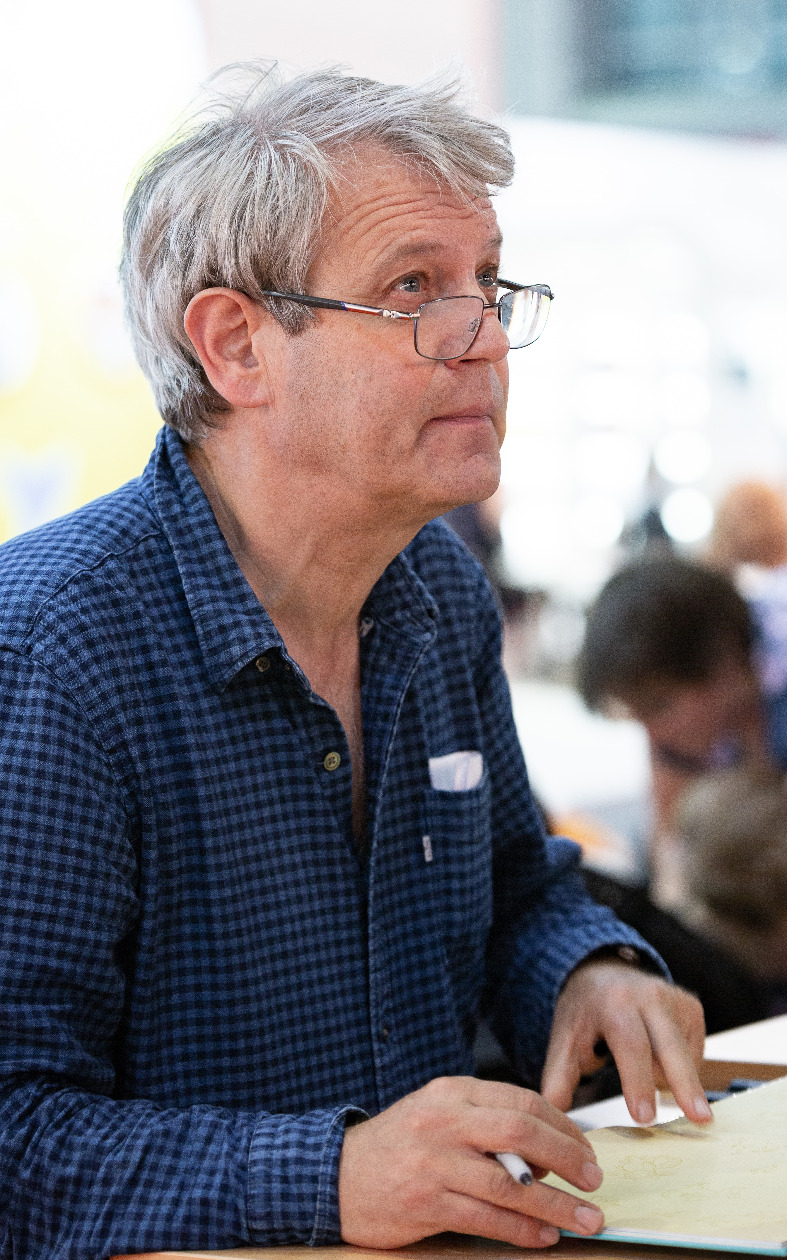 illustrator Axel Scheffler during a signing session at the Franfurter Buchmesse 2018